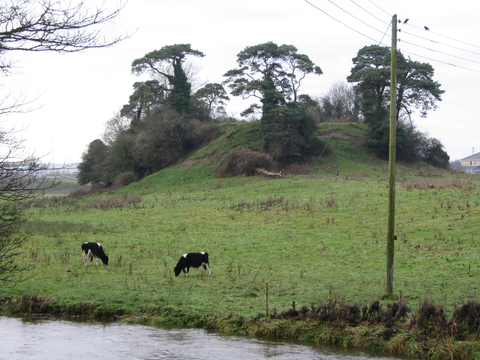 Photo taken from "The Bridge", Bridge St, Callan Co Kilkenny 2004 by Barry Somers